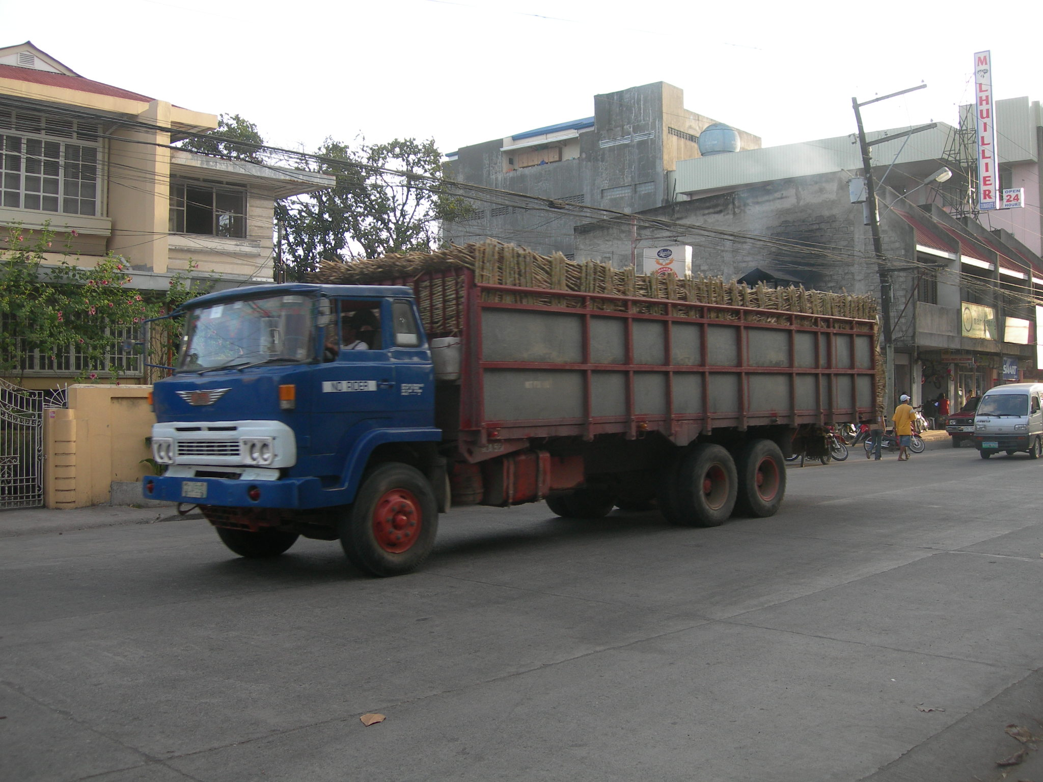 Truck carrying sugar cane from sugar plantation to sugar mill, in the Philippines